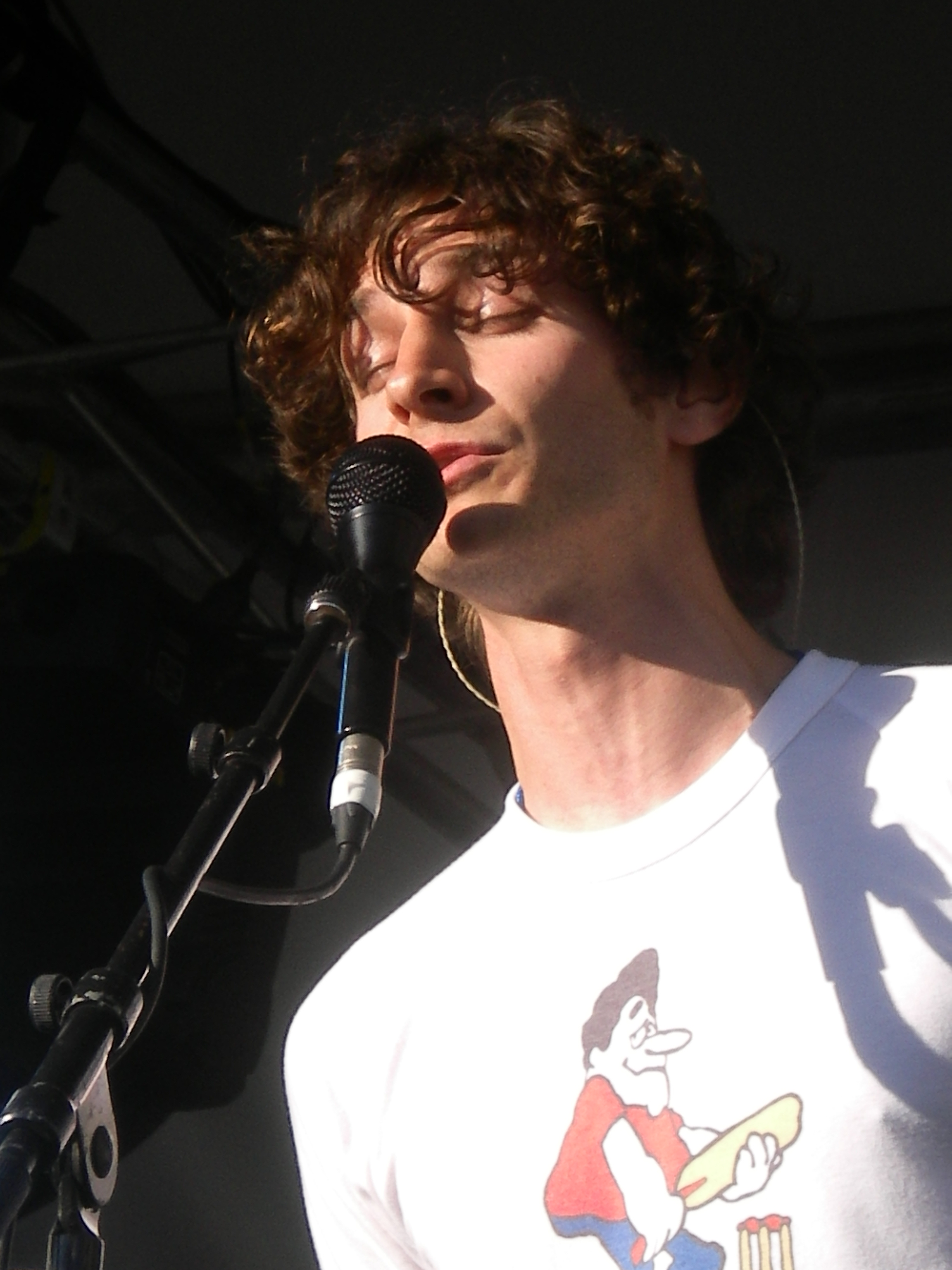 A picture I took of Gotye performing at the Union Of Soul tour. March 16, 2008, at the Wollongong Botanical Gardens Ka5hmirTalk To Me! 08:20, 17 March 2008 (UTC)